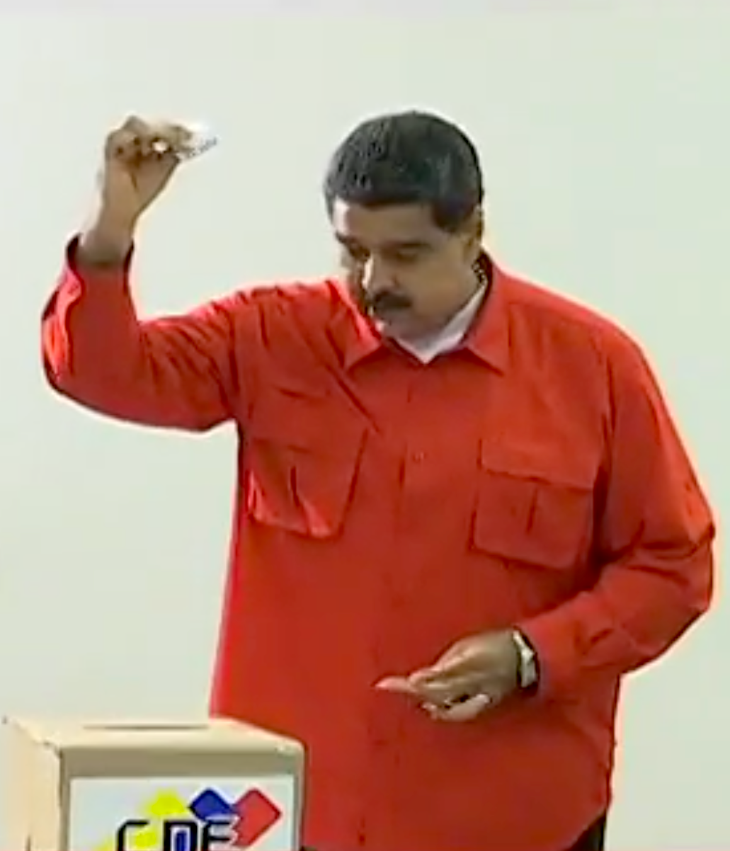 President Nicolás Maduro casting the first vote in the 2017 Constituent Assembly of Venezuela.